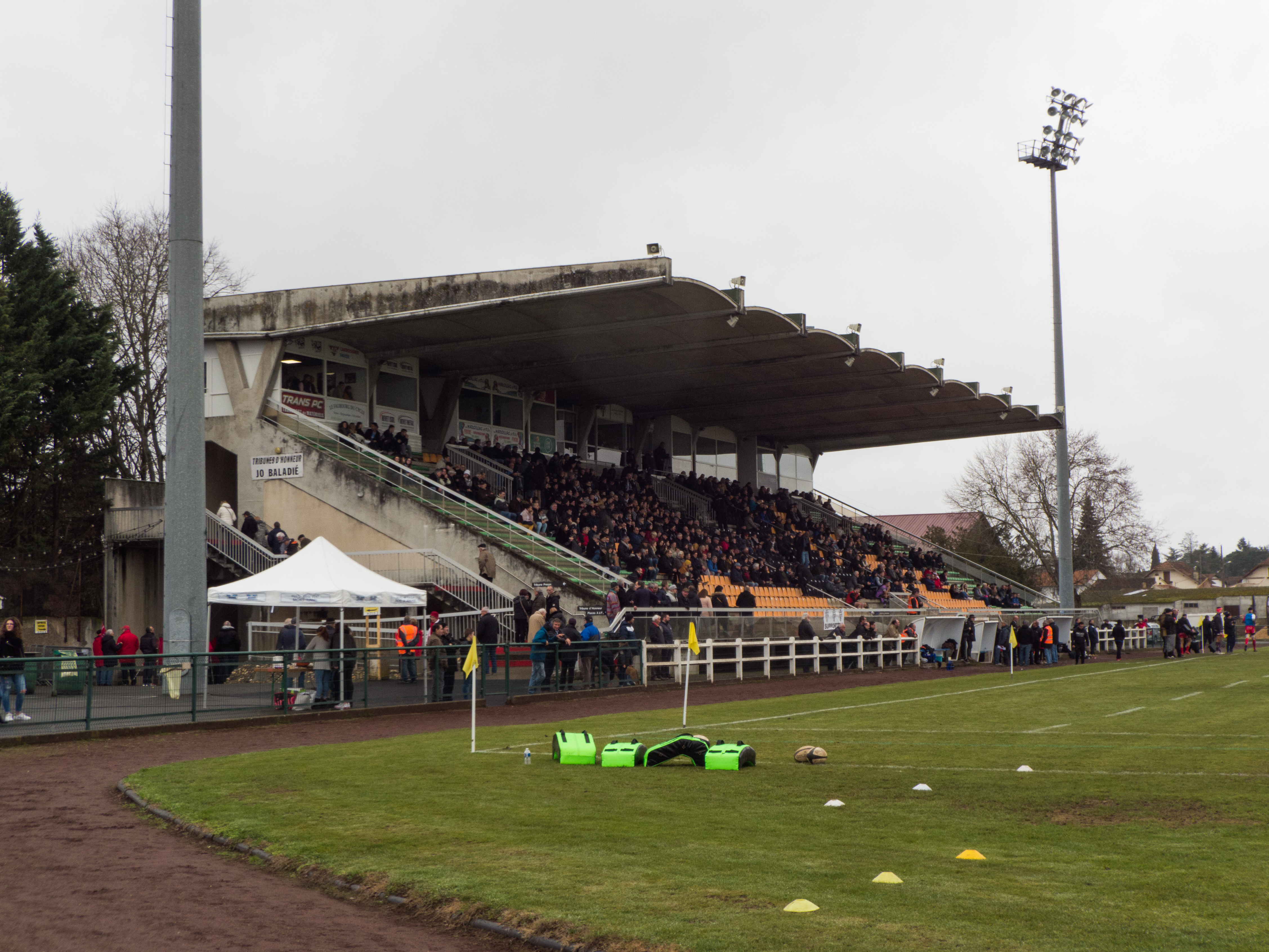 Fédérale 1 2018-2019 — 13 January 2019, stade Gaston-Simounet. Match between: Q3550481 — US Dax